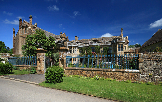 Mapperton Manor House Mapperton dates from the mid-C16 when it was built between 1540 and 1560 by its owner Robert Morgan. Only the north range (the Tudor wing) to the left remains of the original house, the remainder - the main front, is early C17. Today's owners are the Earl and Countess of Sandwich, whose family connections to Mapperton date back to the 1760s. Grade I Listed.